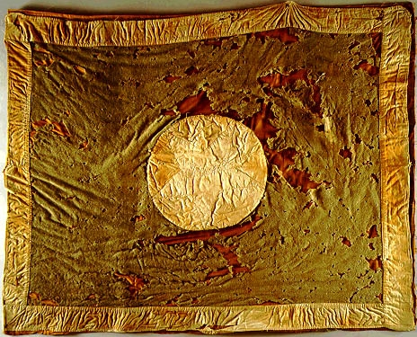 Flag of the 6th Texas Infantry and the 15th Texas Cavalry (dismounted) Consolidated, Granbury's Texas Brigade; issued in the fall of 1864; carried through the Battle of Franklin and the Battle of Nashville; Mark Kelton of the 6th Texas kept it until 1885 when it was turned to the Texas State Archives